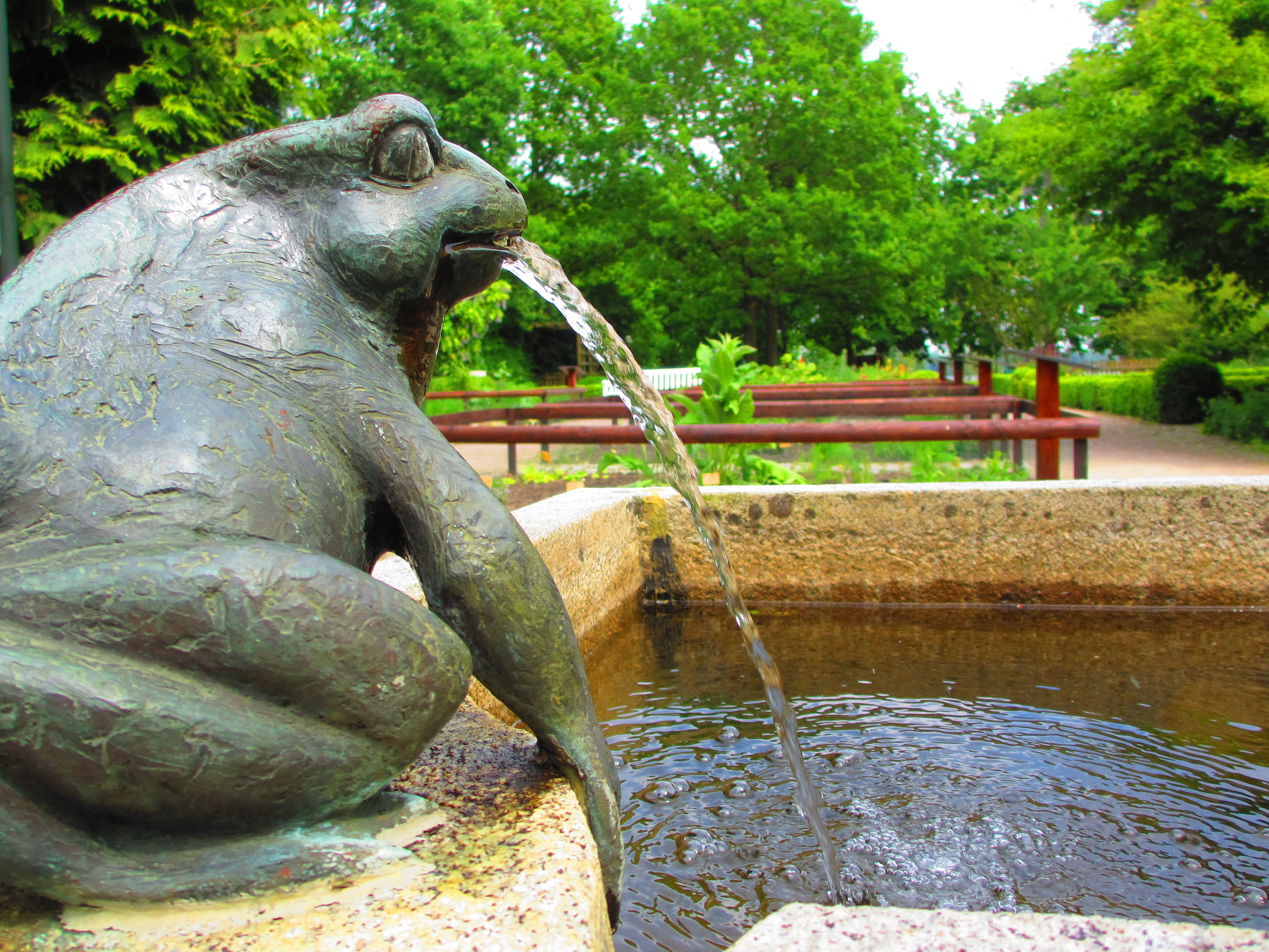 Pharmacist garden, also known as a physic garden with over 80 medicinal plants in the Nature and Experience Park Bremervörde (Germany), a herb garden specifically designed and used for the cultivation of herbs, for medicinal purposes.